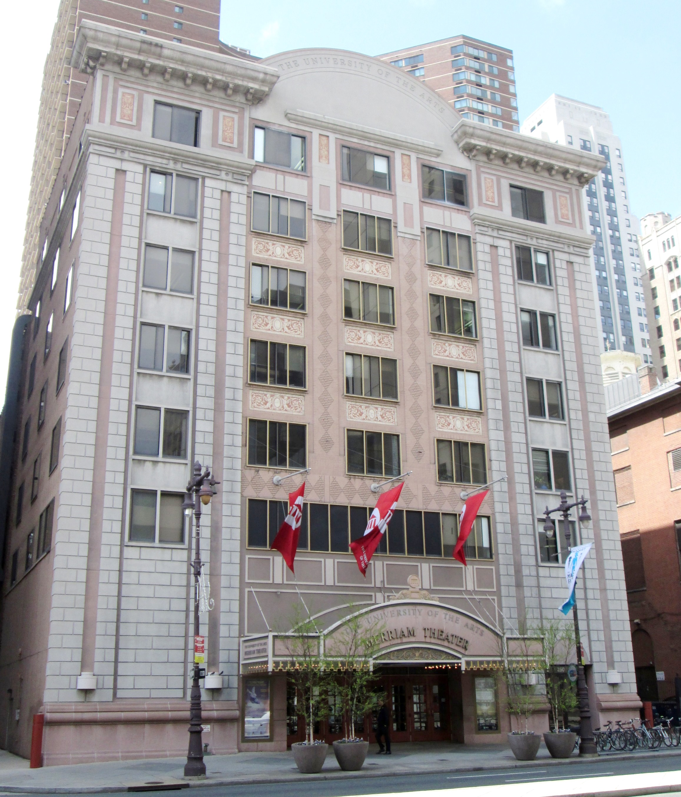 The University of the Arts' Merriam Theater at 250 S. Broad Street at the corner of Manning Street in the Avenue of the Arts cultural district of Center City, Philadelphia is the center of the University's School of Music. The theatre was built in 1918 by the Shubert Organization as the Sam S. Shubert Theatre, and was designed by Herbert J. Krapp. Additions and renovations were made in 1958, and the theatre was modernized in 1986. It was re-dedicated to John W. Merriam, a benefactor of the University, in 1991.